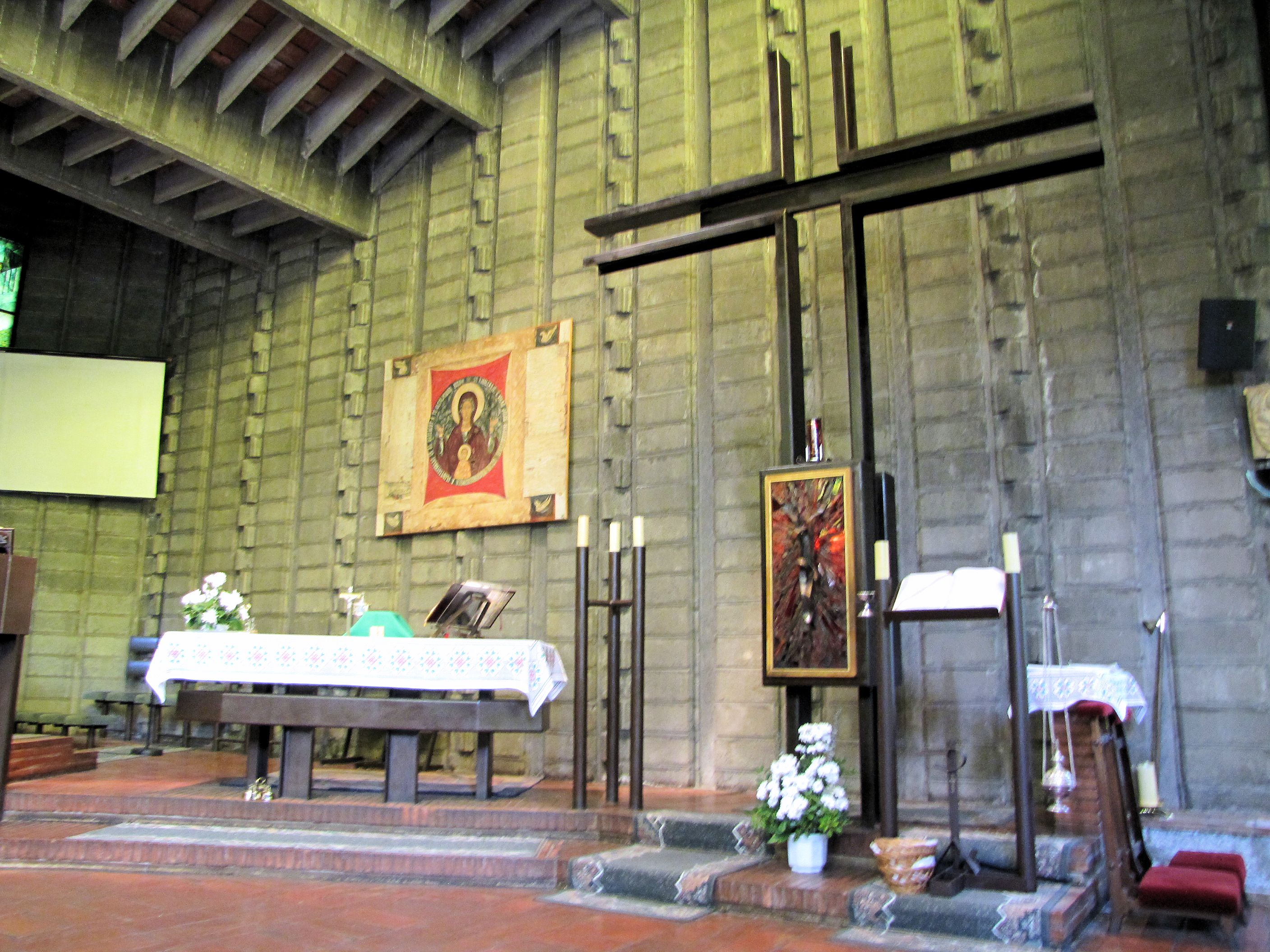 All Saints Church, Budapest District XII